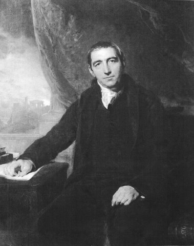 Portrait of Thomas Taylor (1758-1835), platonist. Artist Sir Thomas Lawrence, P.R.A. (1769-1830). Black and white photograph of the original oil painting in colour, 49" x 39", in the National Gallery of Canada, Ottawa, #354. In the background sacked Rome is burning. By Taylor's left hand is a book of the works of Plato.